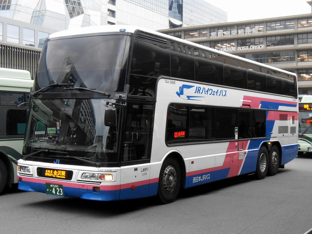 Nishinihon JR bus Mitsubishi Fuso Aero King (MU612TX)highwaybus "Hokurikudo hirutokkyu Osaka"(Osaka,Kyoto-Kanazawa)